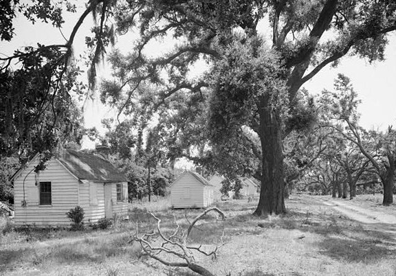 Slave Quarters at McCleod Plantation (Charleston County, South Carolina) (cropped)